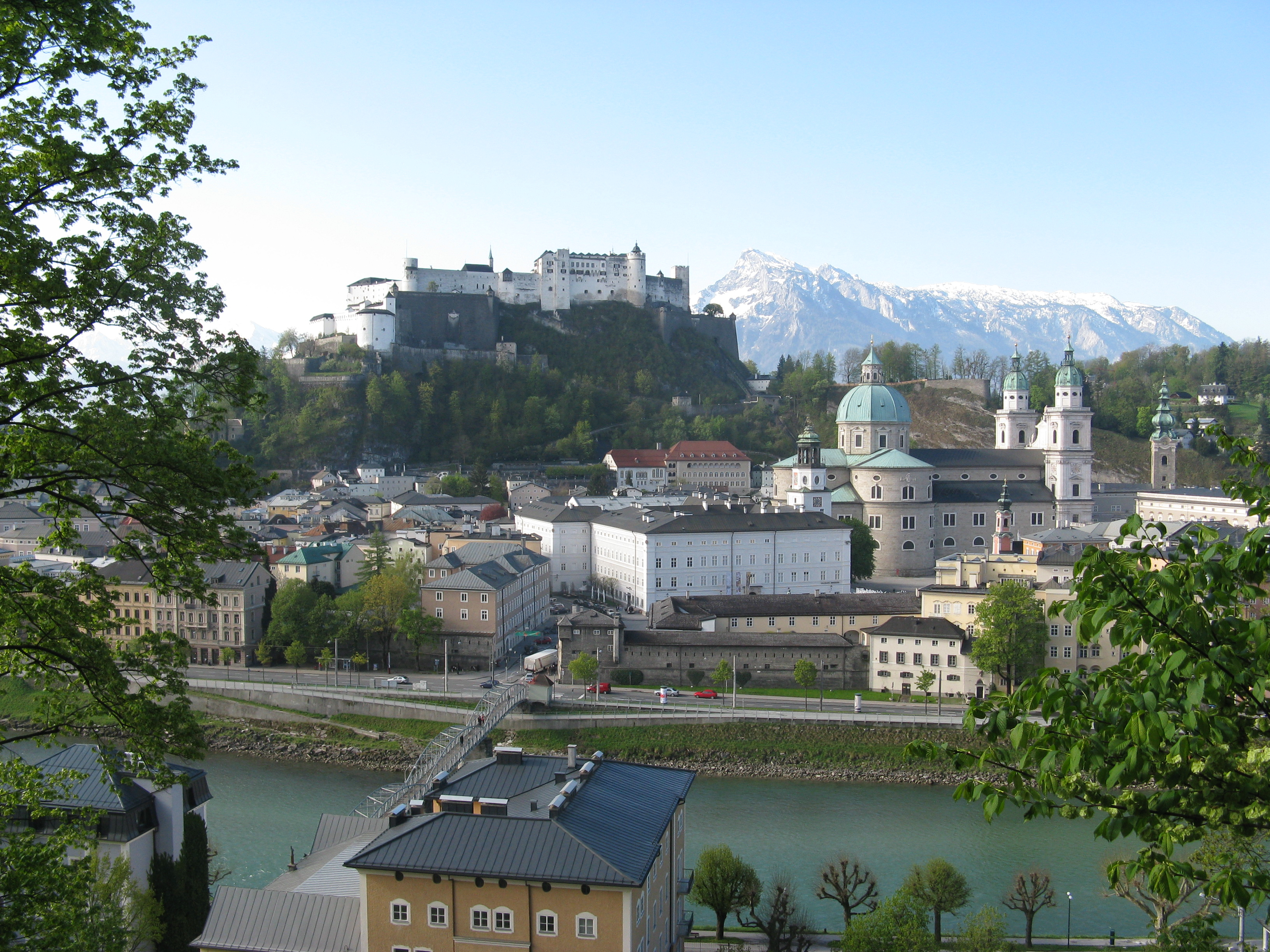 Panoramic view of Salzburg - View from Kapuzinerberg: Alps - Untersberg mountain, Festung Hohensalzburg (Hohensalzburg Castle), Salzburger Dom, Salzach River, Mozart footbridge